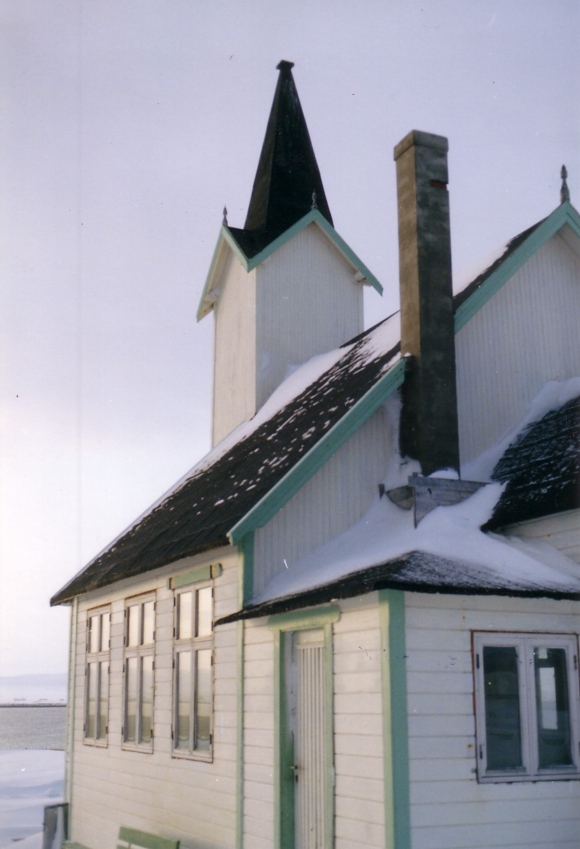 The Stegelnes Chapel in Vardø, North Norway, built in 1908.